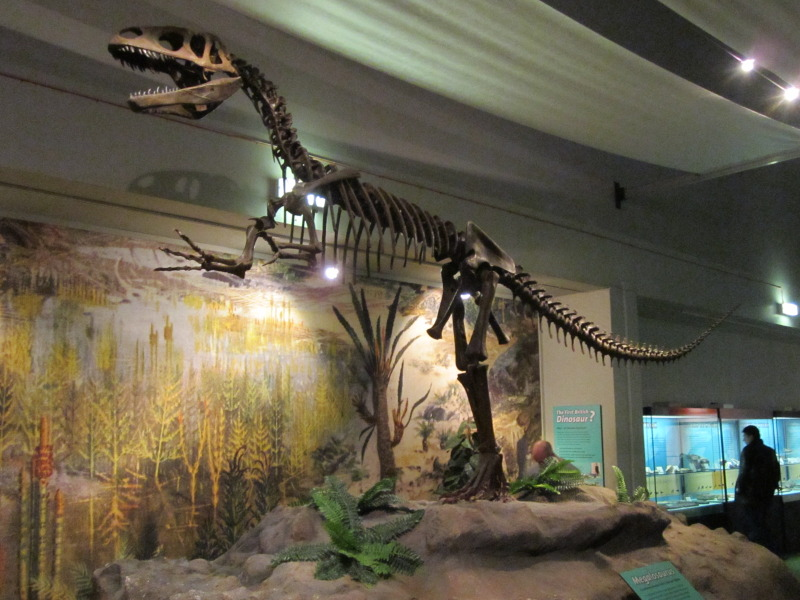 Megalosaurus skeleton, World Museum Liverpool, England. Found in southern England.